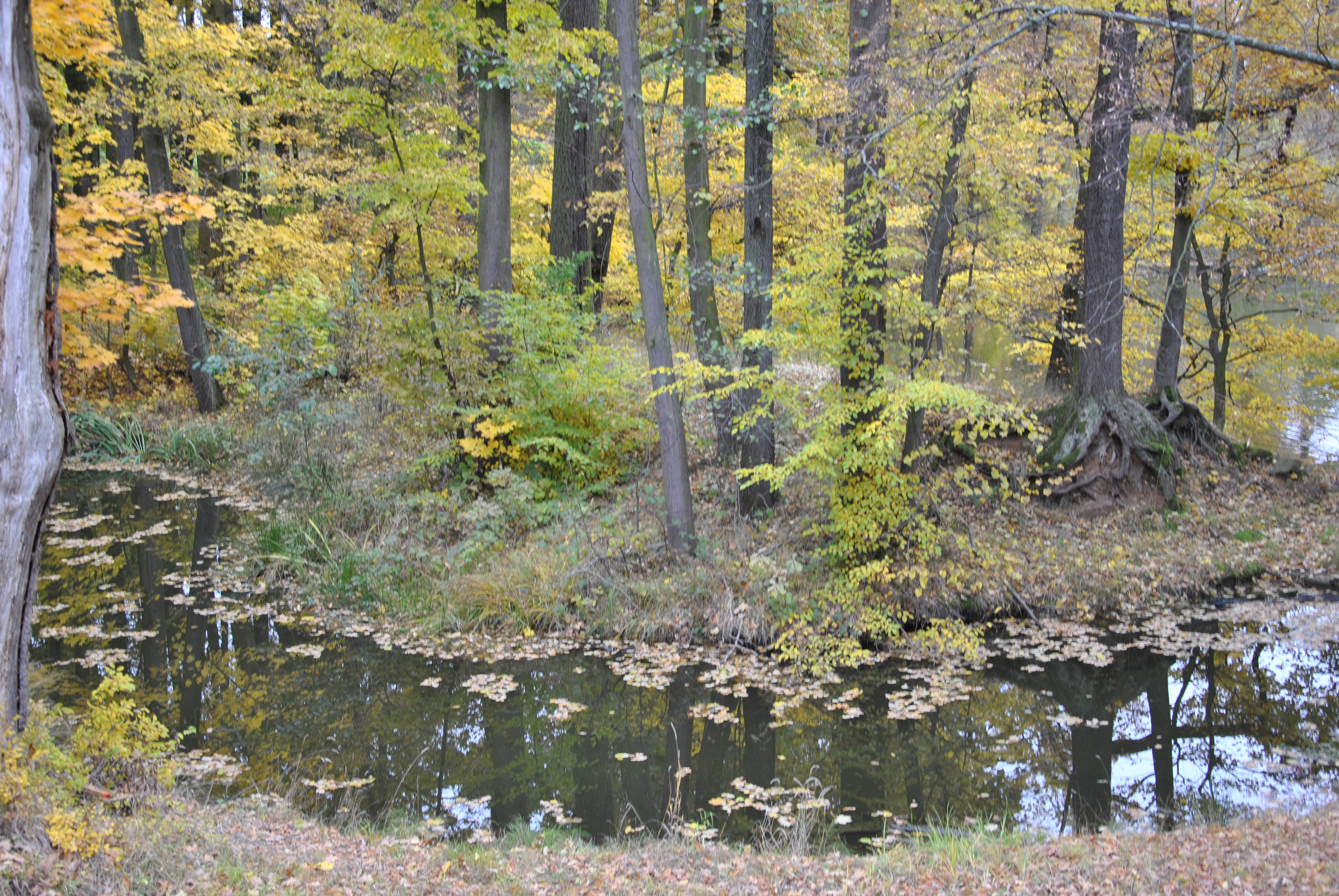 NPR Stará řeka